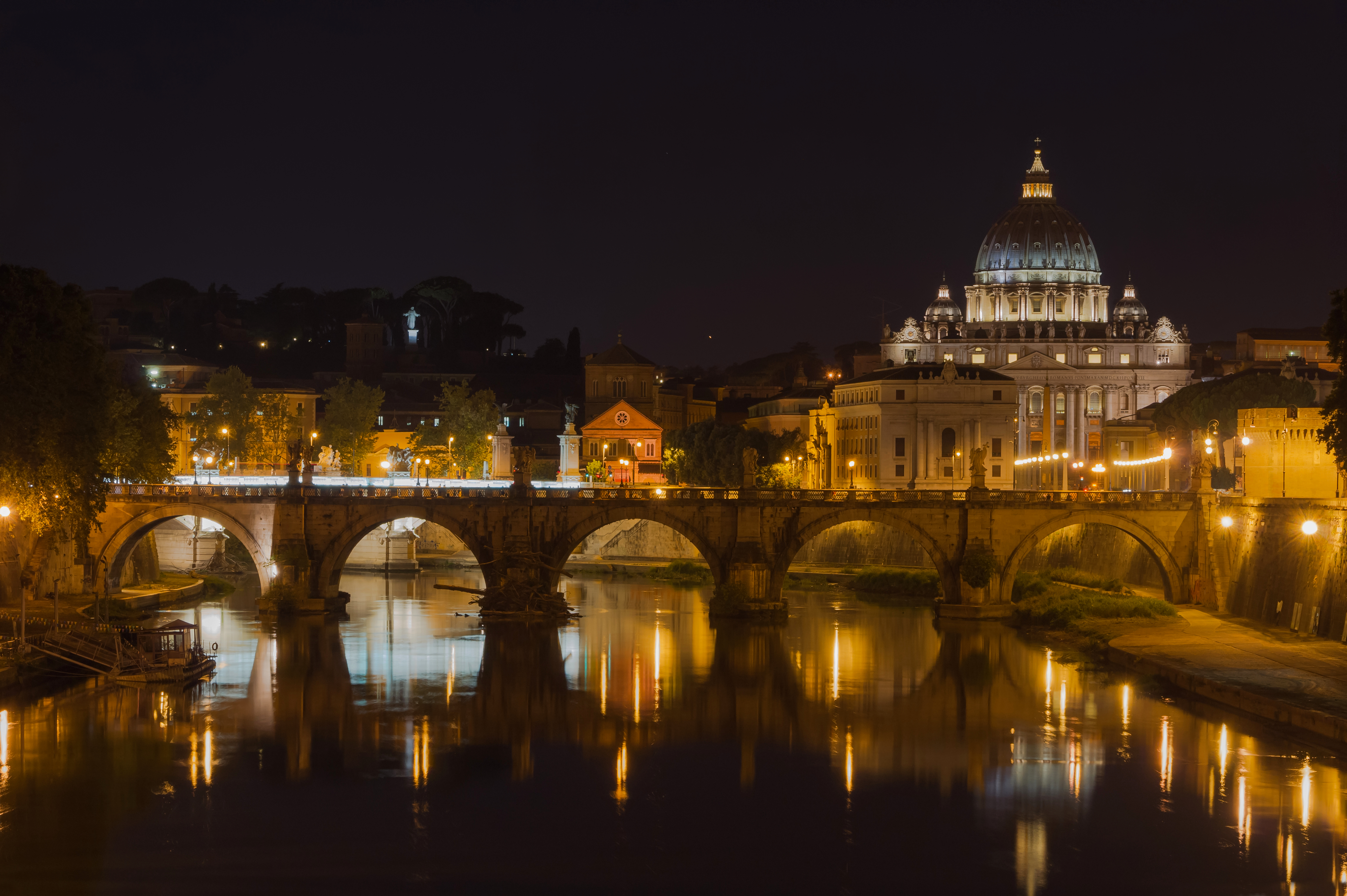 Saint Angelo Bridge over the Tiber River with the St. Peter's Basilica in the background from the Umberto I Bridge, Rome, Italy.